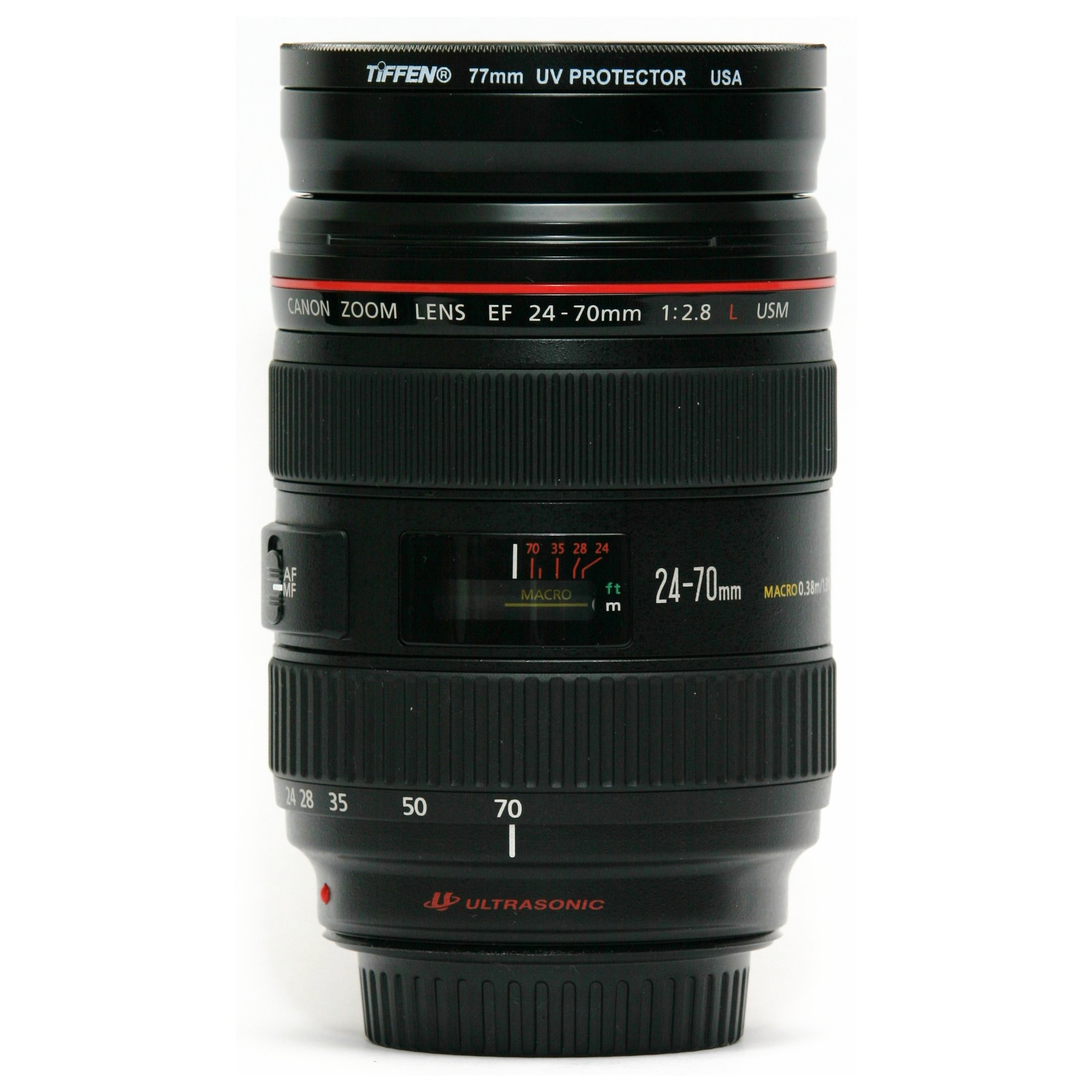 A Canon EF 24-70 mm lens from the side at 70 mm